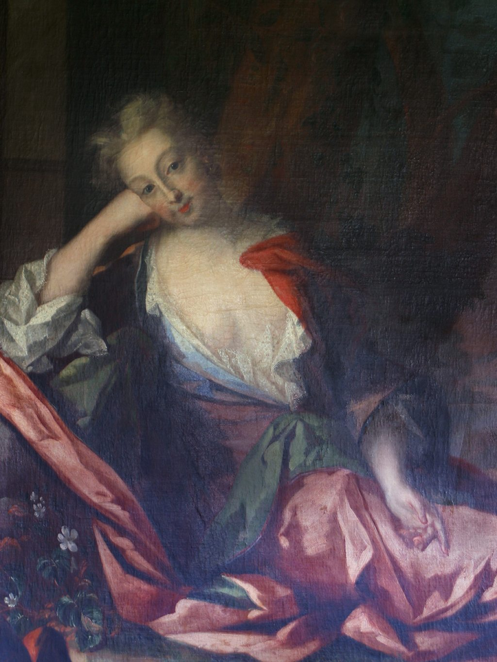 Countess Christina Piper (1673-1752).